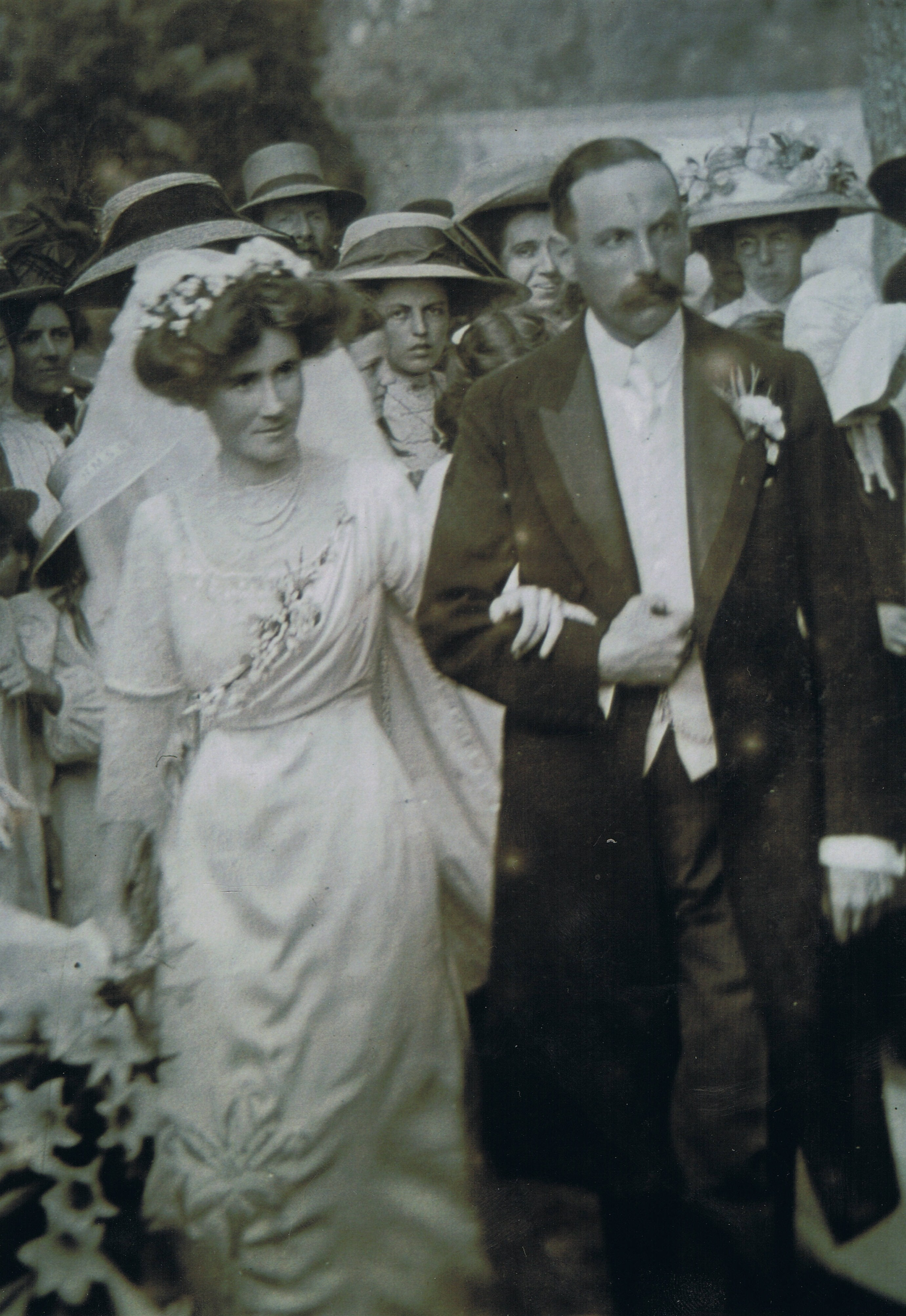 Scan of a photo (by me, R. de Salis, Rodolph (talk)) of 2nd Lord Monk Bretton and Ruth Brand, wedding day photo, Firle, East Sussex, 19 August 1911. Other information 2nd Lord Monk Bretton and Ruth Brand, wedding day photo, Firle, 19 August 1911.